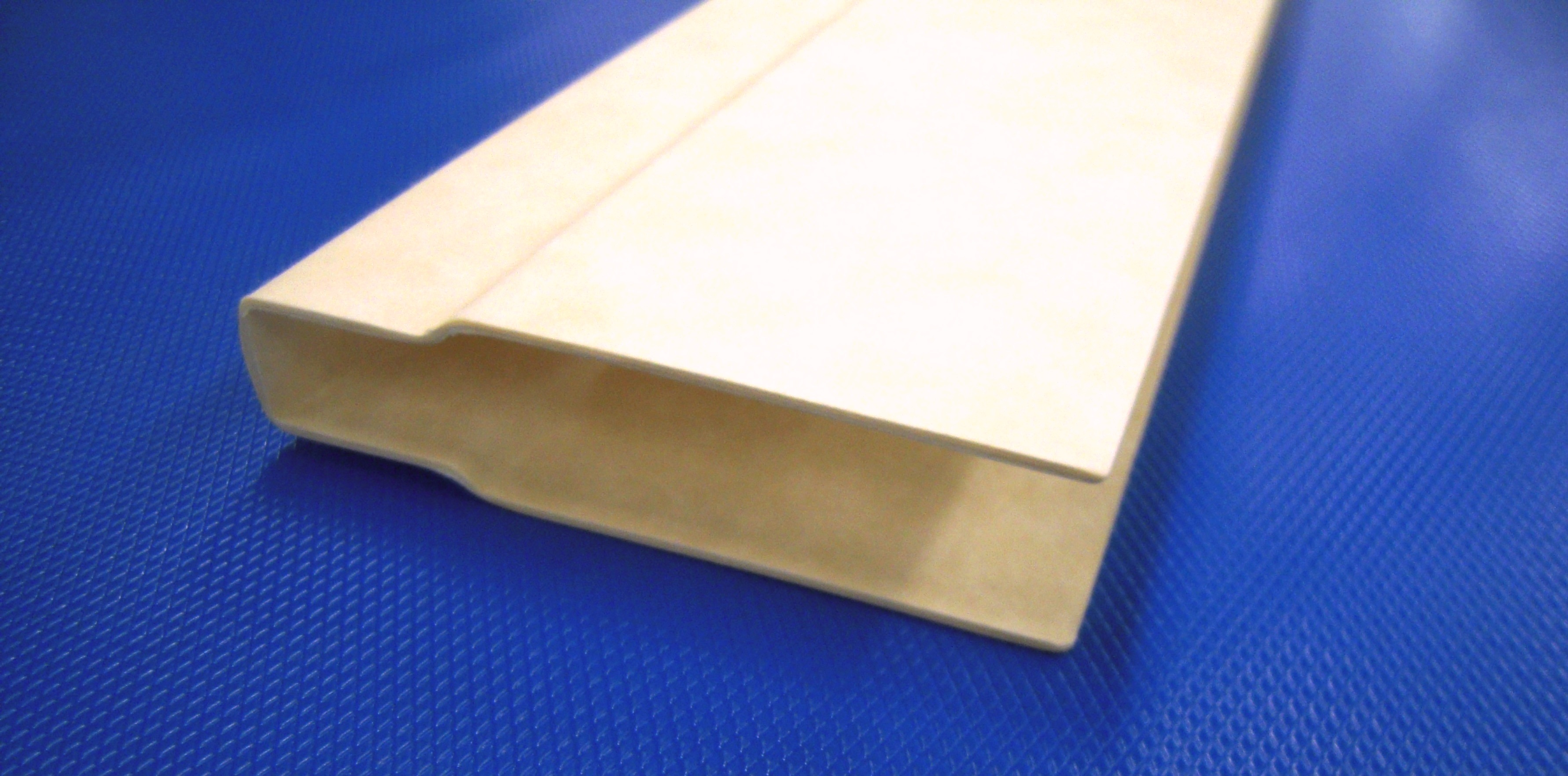 U Slot Armor - Slot Insulation